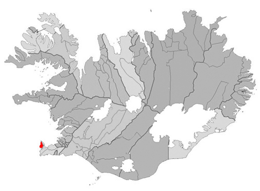 Based on Municipalities of Iceland.png.